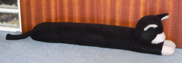 Stuffed animal against draught